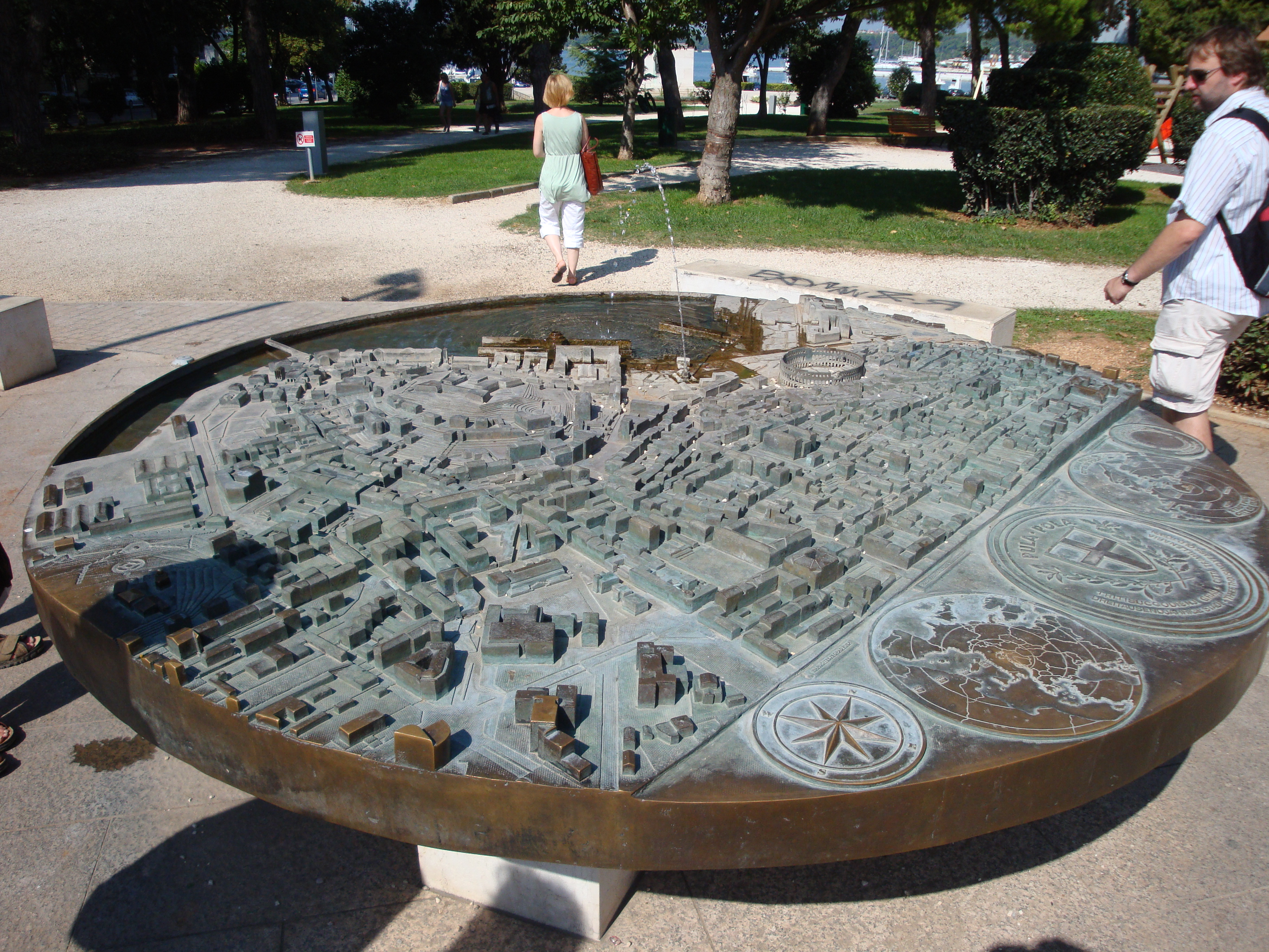 Bronze model of pula